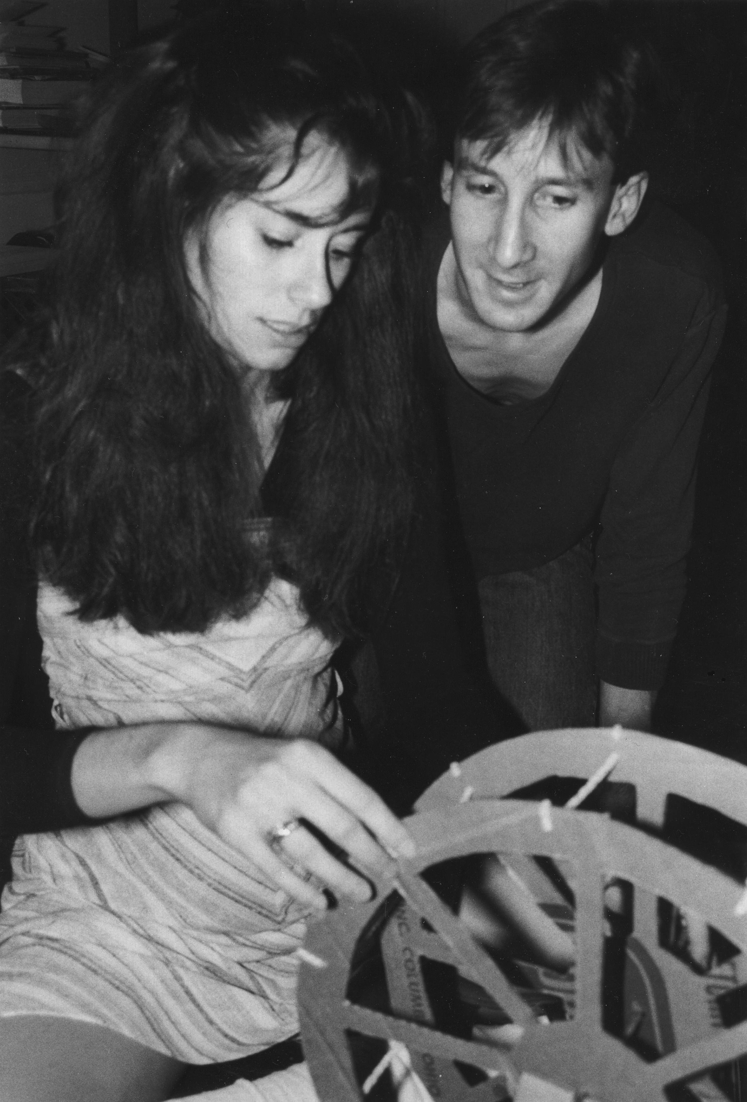 Production photo from a 1986 revival Off-Broadway of Lanford Wilson's play Home Free! with Lee Taylor-Allan as Joanna and Kenneth Boys as Lawrence